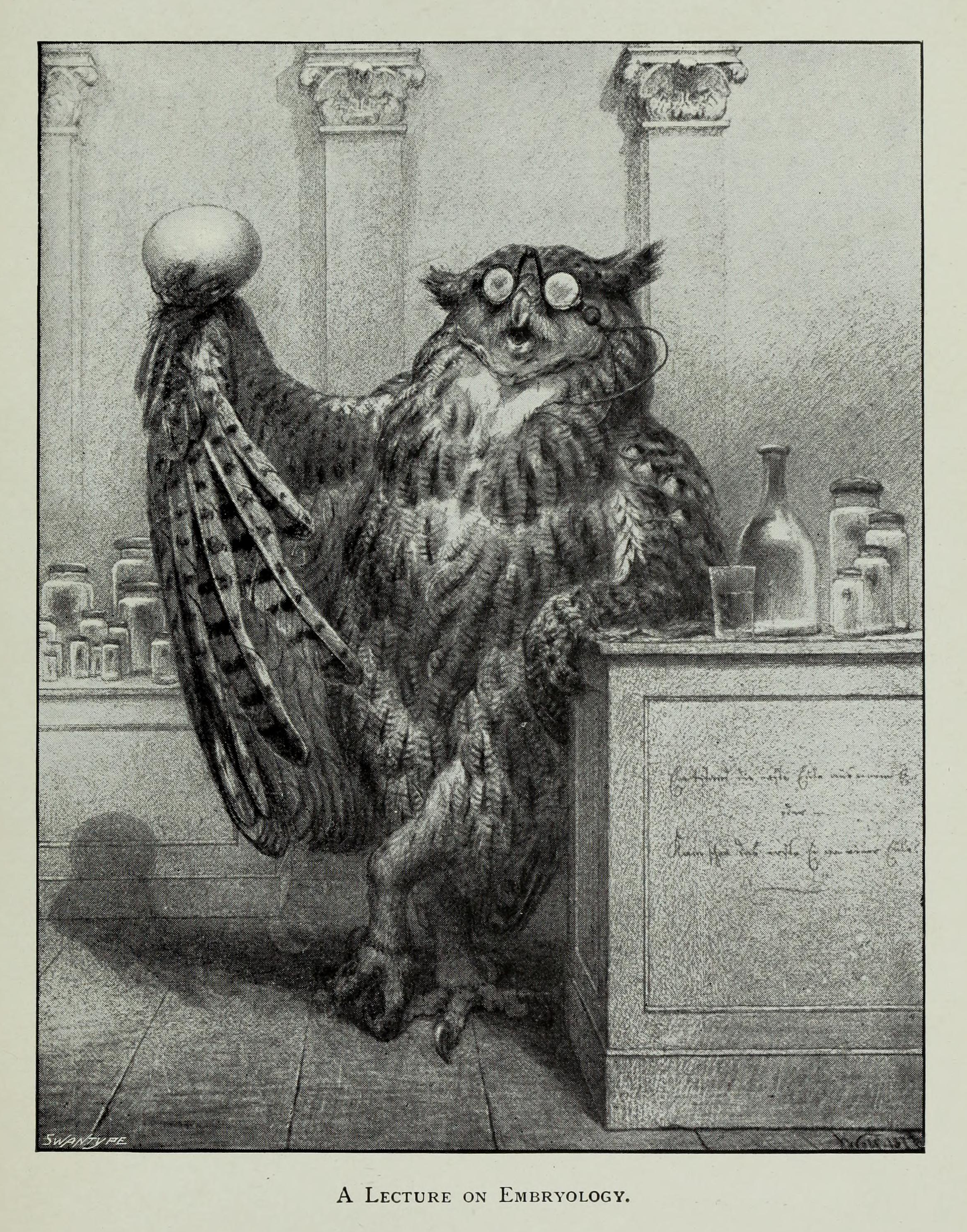 "Lecture on Embryology" a satire by Joseph Wolf